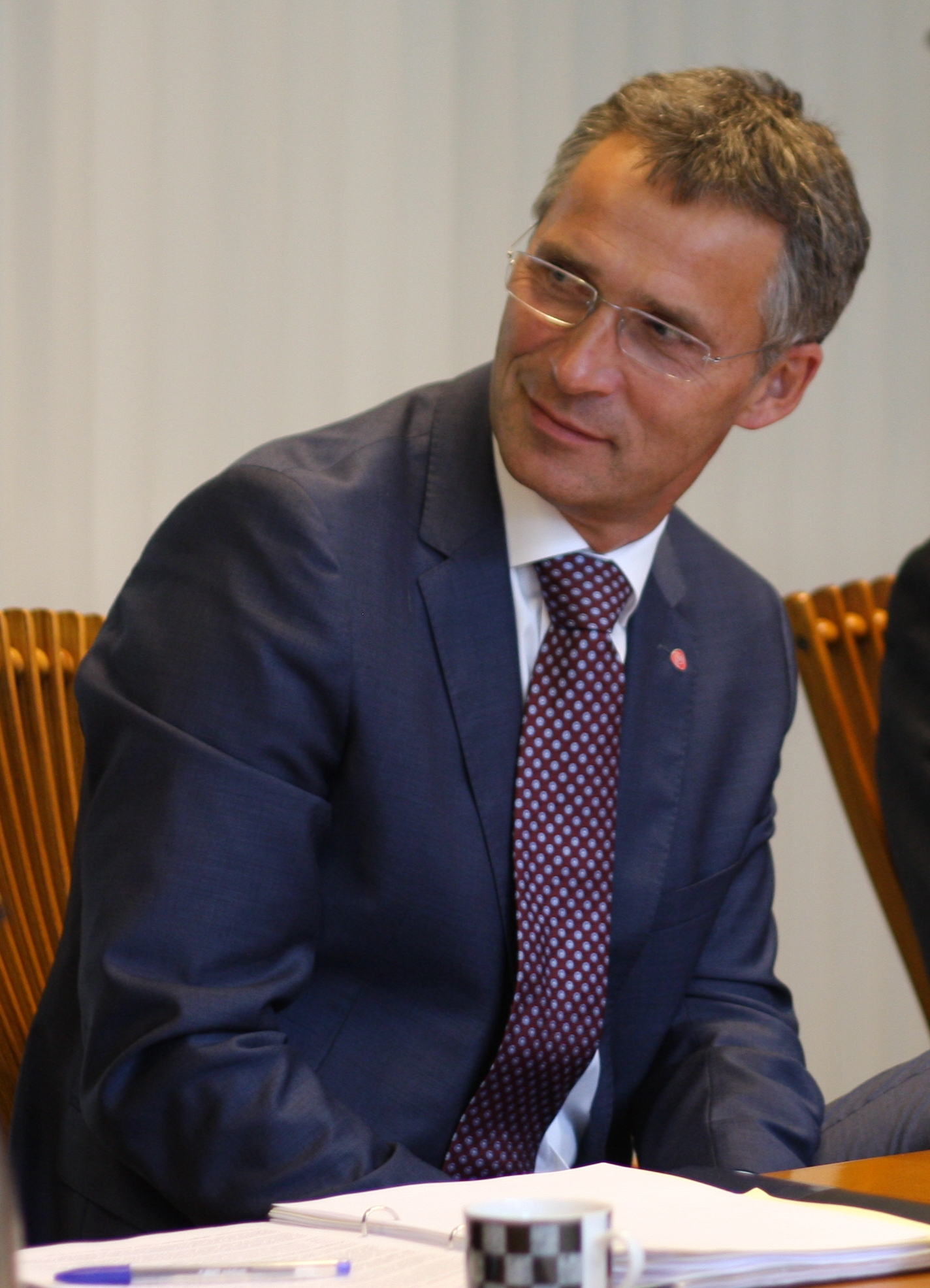 Prime minister Jens Stoltenberg (Norway), photo as of August 24, 2011.